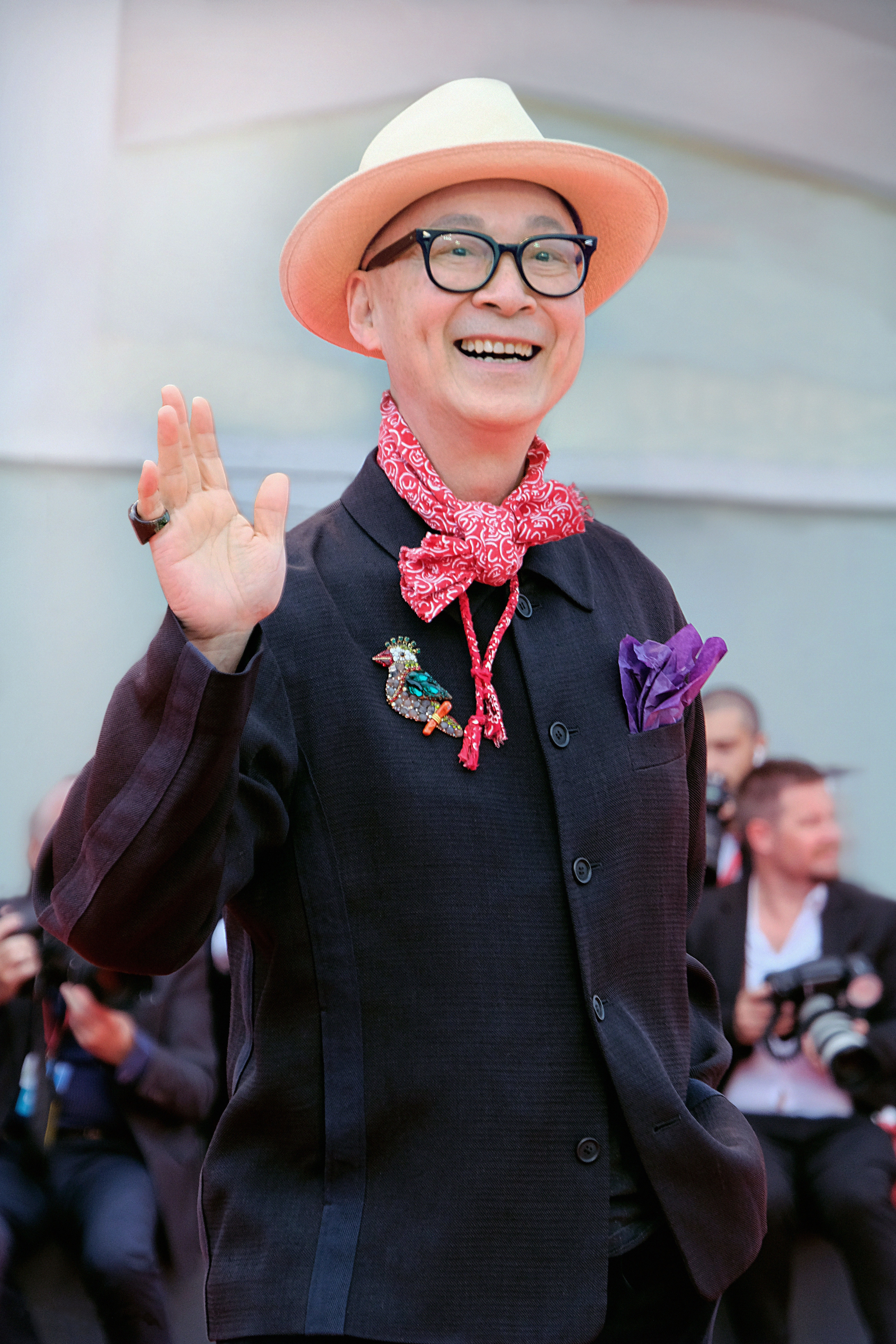 Yonfan, writer, film director, and photographer from Hong Kong